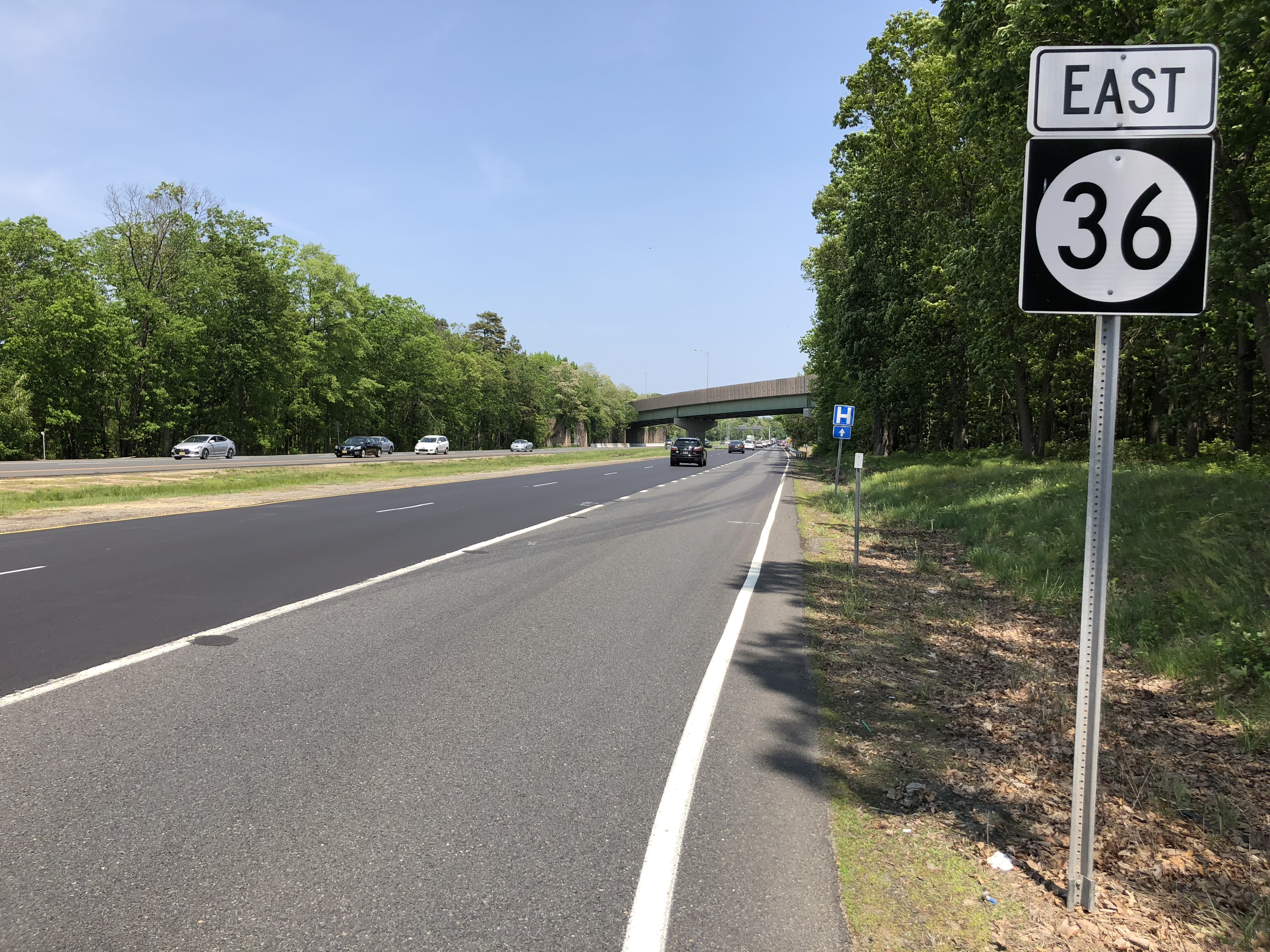 View east along New Jersey State Route 36 just east of Monmouth County Route 51 (Hope Road) in Eatontown, Monmouth County, New Jersey